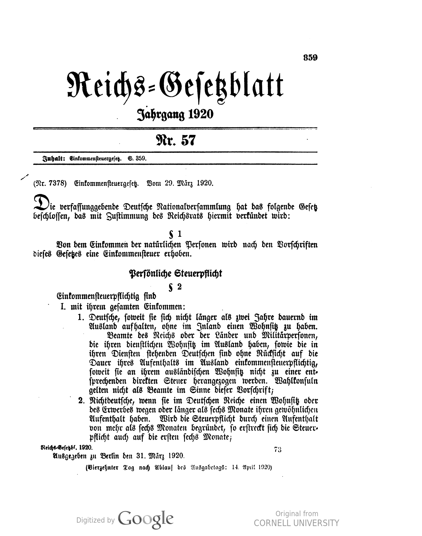 Scan from the Imperial Law Gazette of Germany, 1920